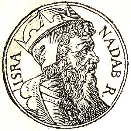 Nadab of Israel was the second king of the northern Israelite Kingdom of Israel.